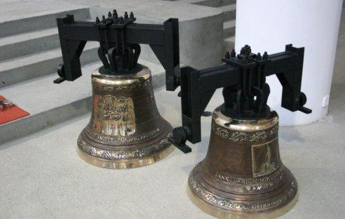 Dzwony w Parafii pw. Miłosierdzia Bożego w Głogowie